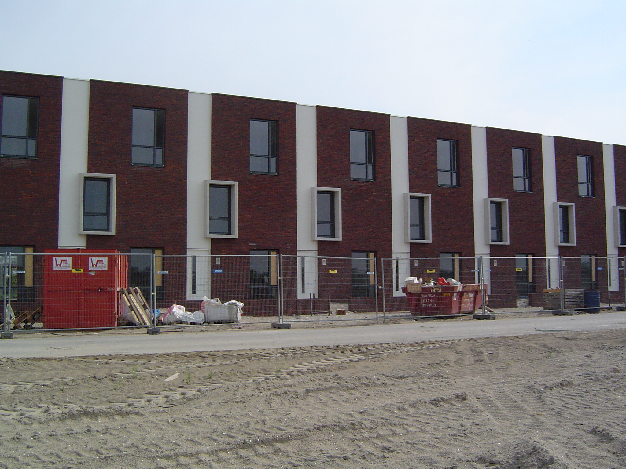 Los Angelesstraat, the Hague. New houses are build in the "Vinex" neighborhood, Wateringse Veld. Made by Joris